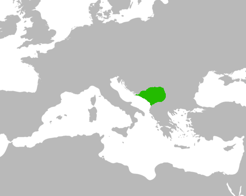 Principality of Rascia (Serbia) 1183-1196.